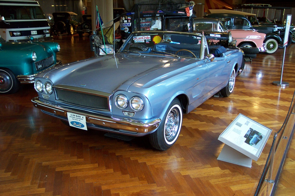 1962 Budd XR-400 concept car for American Motors Corporation (AMC). Now at the Henry Ford Museum 2007